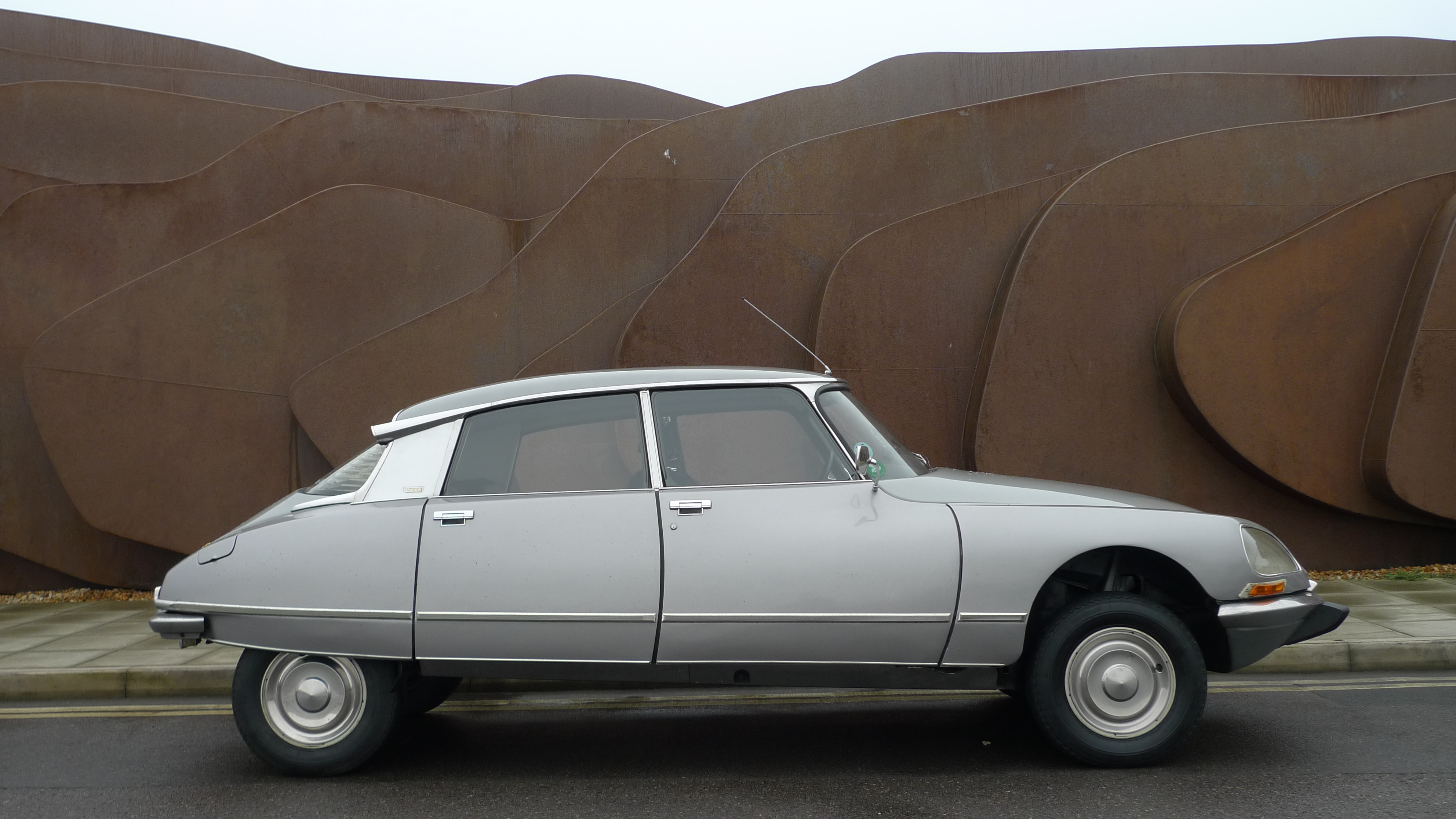 Side view. High position.